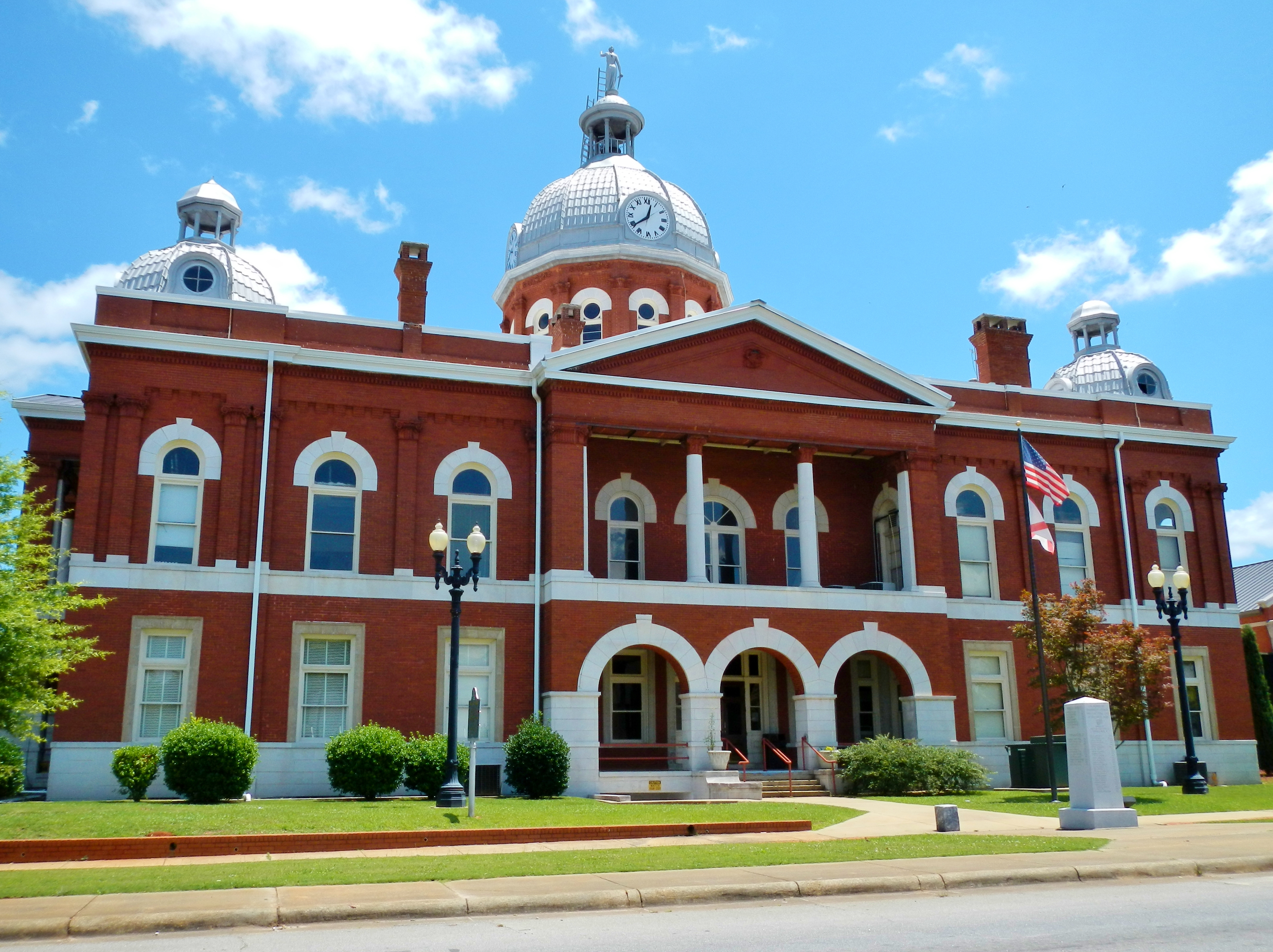 This is a photo of the Chambers County Courthouse in LaFayette, AL.